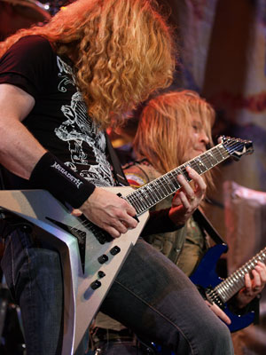 Dave Mustaine of Megadeth playing new Dean Guitars